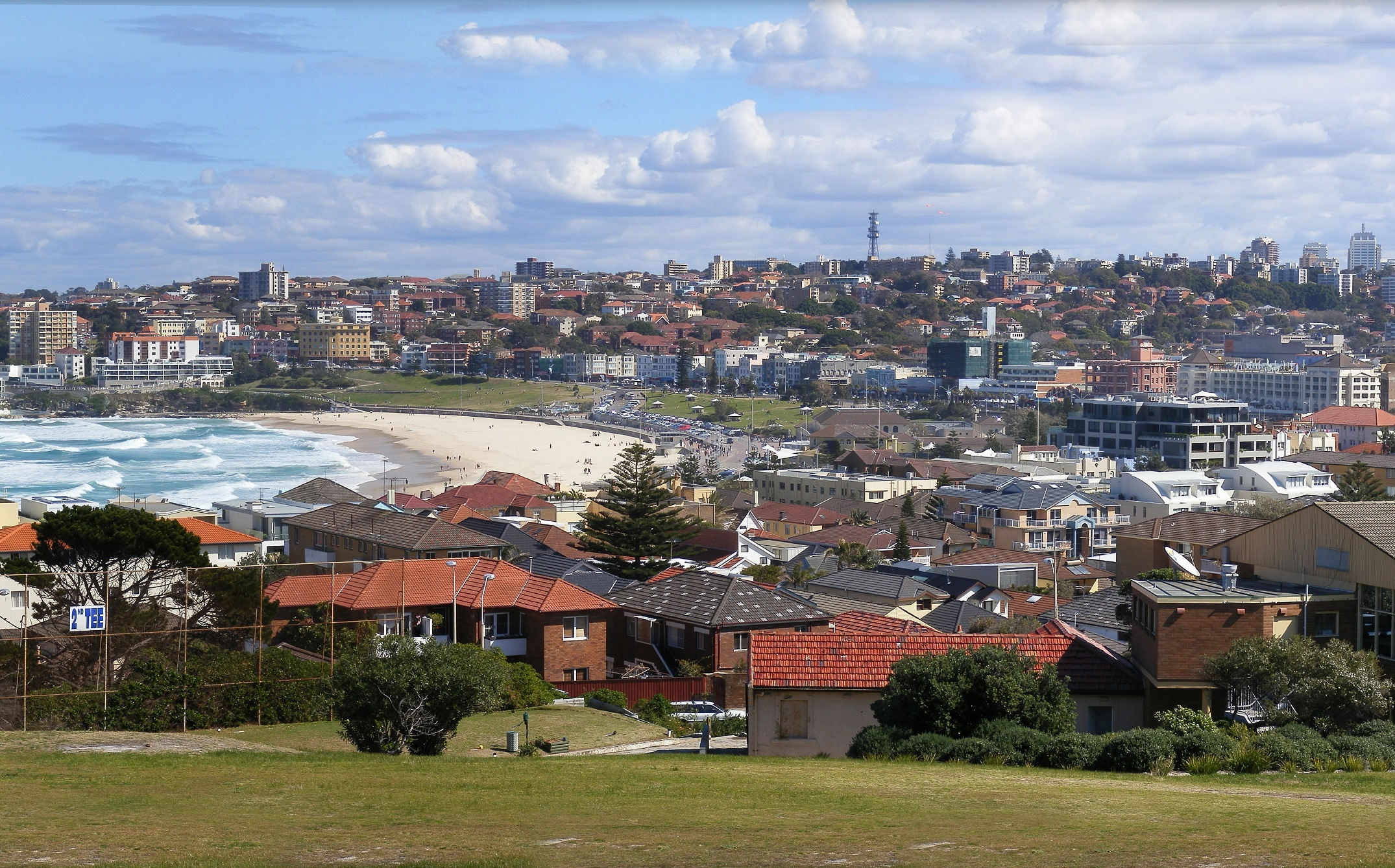 Bondi, New South Wales